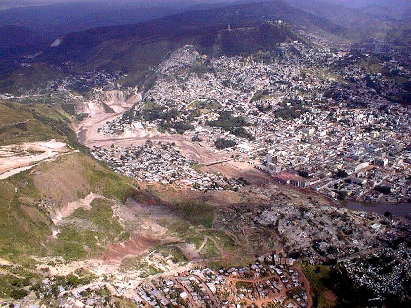 This image shows a Tegucigalpa after Hurricane Mitch's heavy rains caused a mudslide on the side of town.